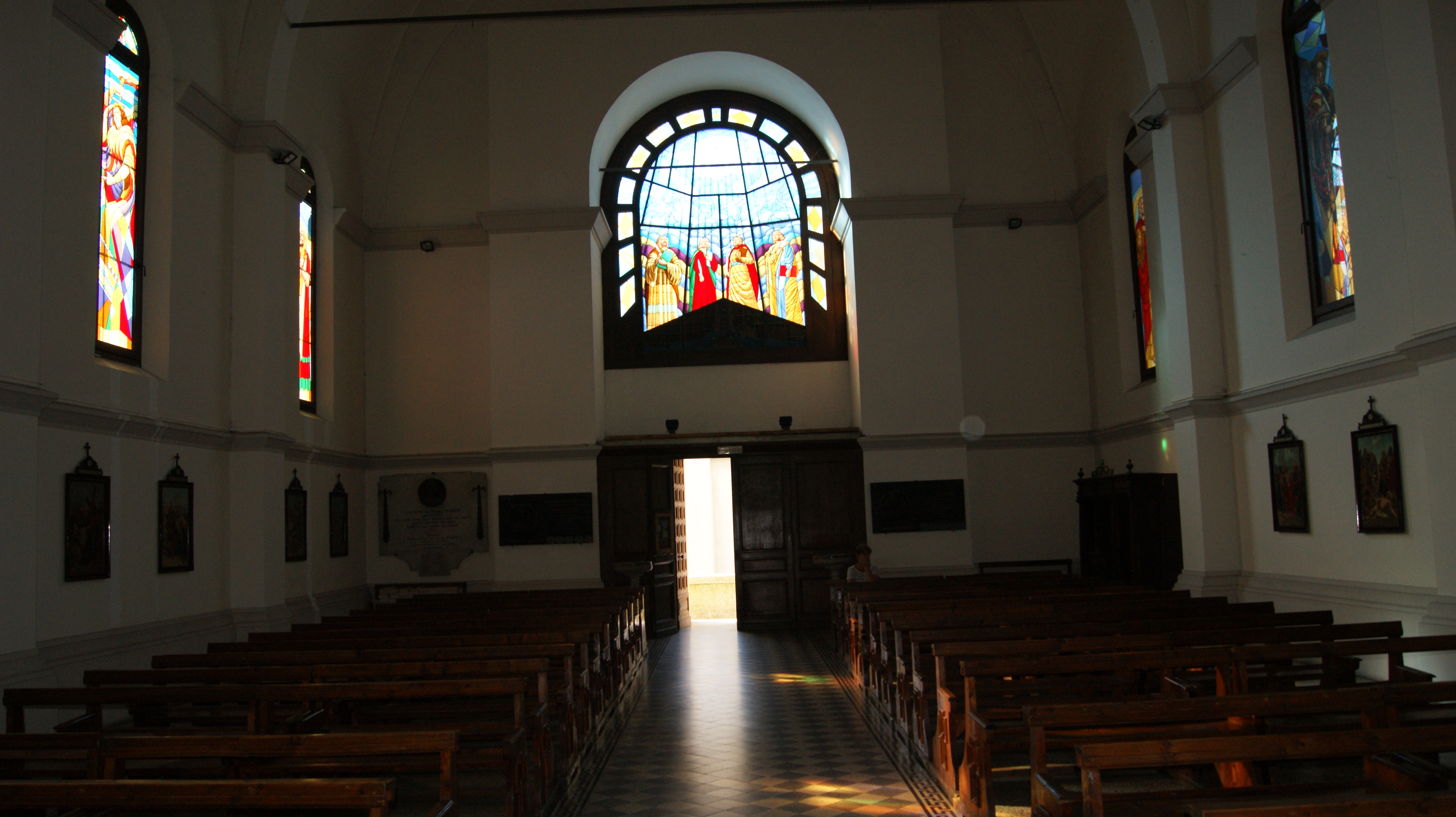 Chiesa del Sacro Cuore (Church of the Sacred Heart) in Tirano. Main entrance.